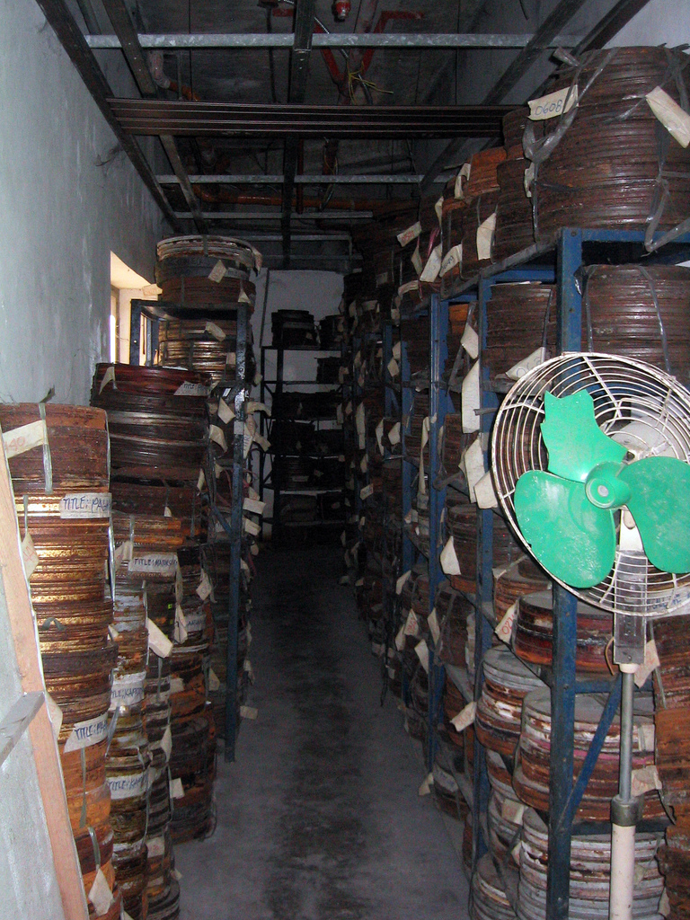 Nicek Deocampo at the MOWELFUND in Quezon City maintains the incredible Movie Museum of the Philippines. He's been given all this 35mm film, as well, which he saves as best he can. Mowelfund Movie Workers Welfare Foundation Pambansang Museo ng Pelikula (Film Institute, Mowelfund Plaza, Quezon City)